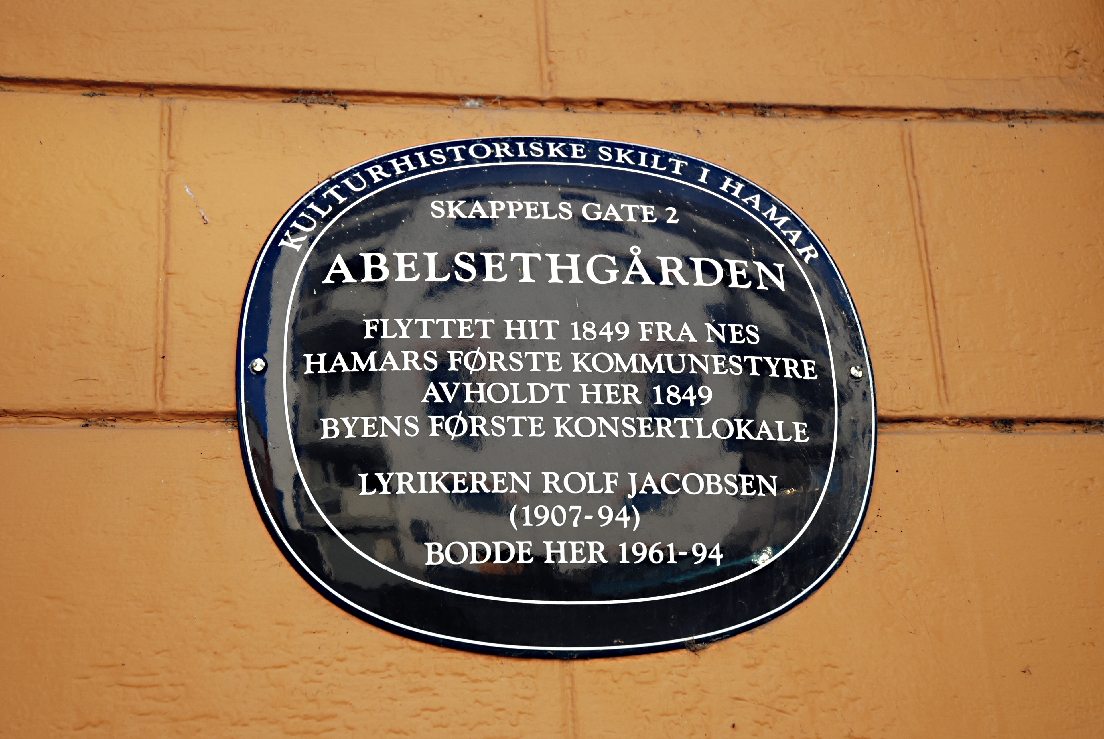 Sign at Abelsethgården, in Hamar, Norway. Previous home of poet and writer Rolf Jacobsen.